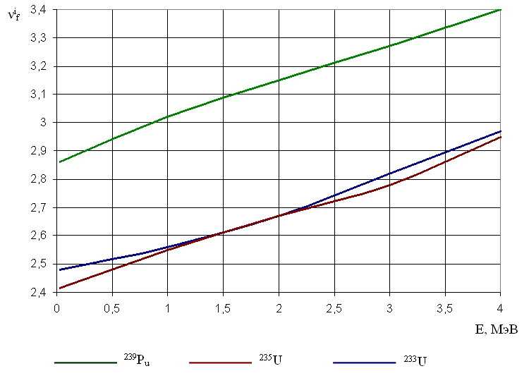 Prompt neutron